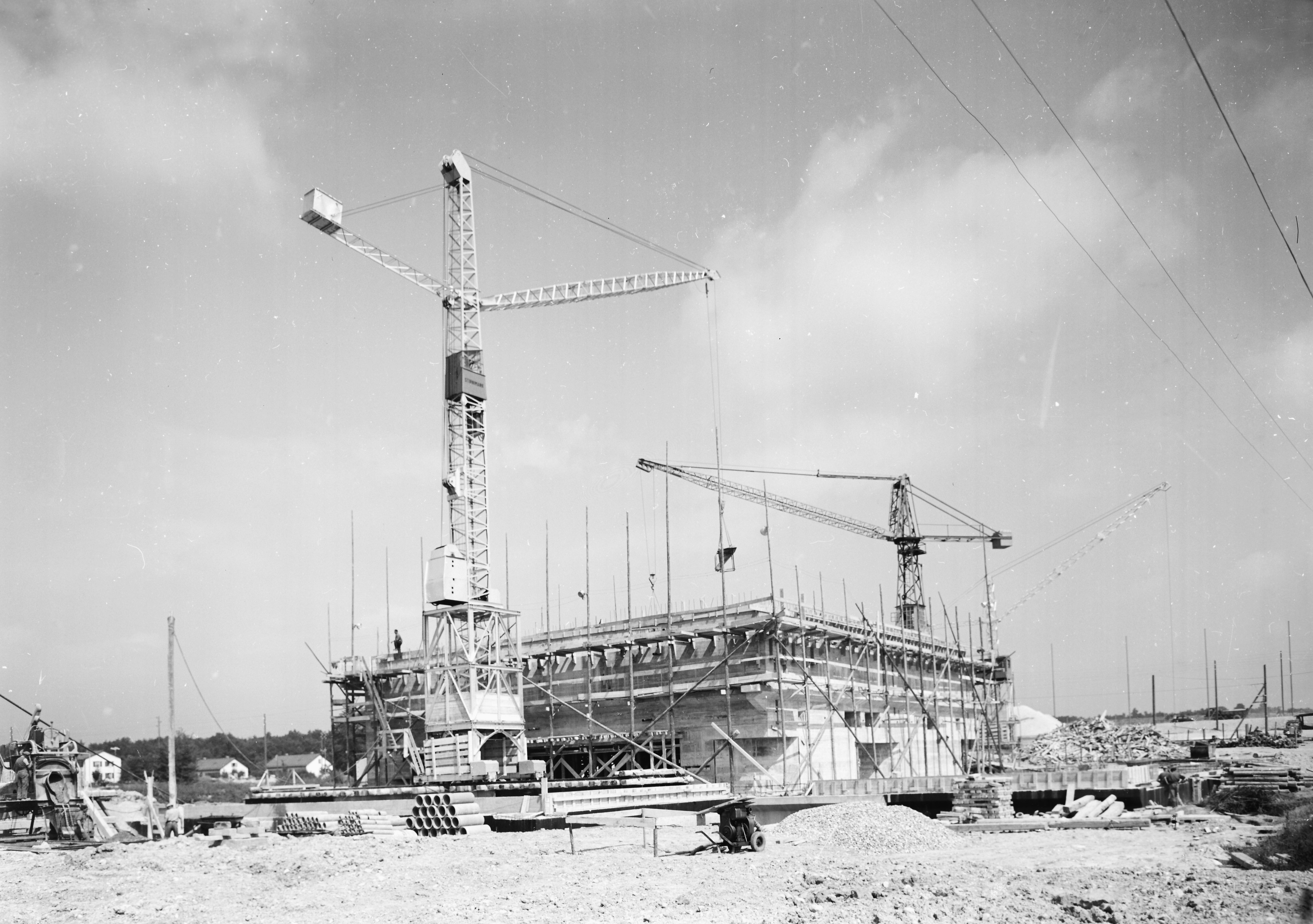 An image taken from the Synchro-Cyclotron construction site.